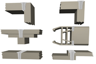 With friction stir welding it is possible to joint multiple kind of shapes.